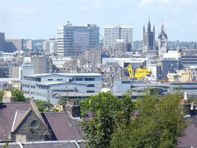 Aberdeen from Torry Taken from Oscar Road, the Granite City skyline is now a mix of traditional granite and modern concrete and glass. Granite seems to be losing out with only Mitchell Tower and the Town House prominent to right of photograph. In the middle distance is the harbour.